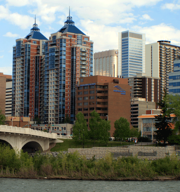 Bridgewater Bank head office - Calgary, Alberta, Canada